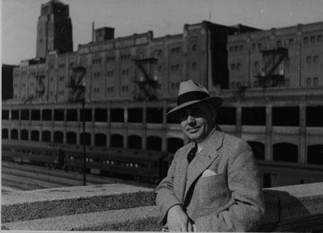 Otto Kuhler, self-portrait at Chicago station